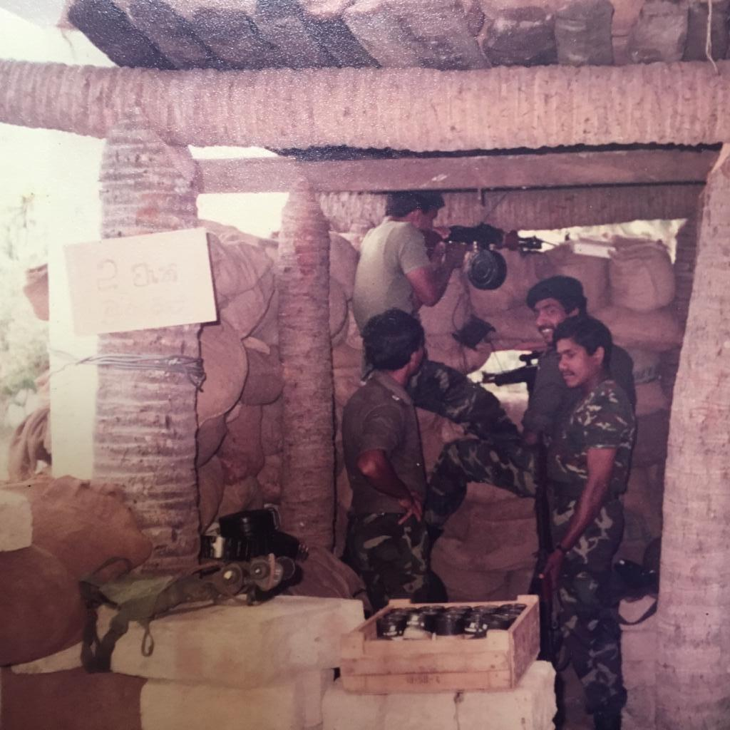 Frontline operations against the LTTE